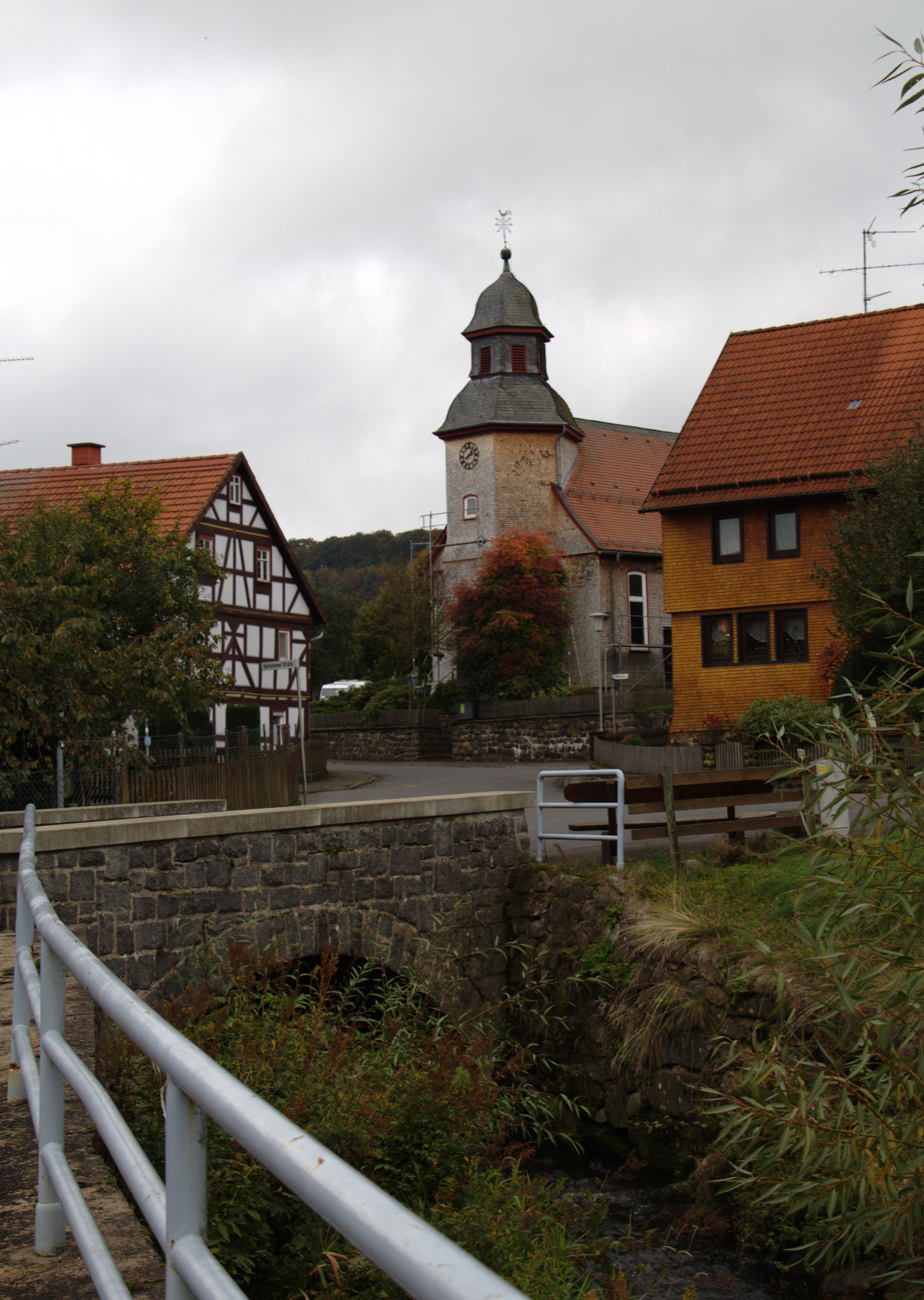 Protestant church / bridge to Herbsteiner Strasse in Lanzenhain, Hesse, Germany